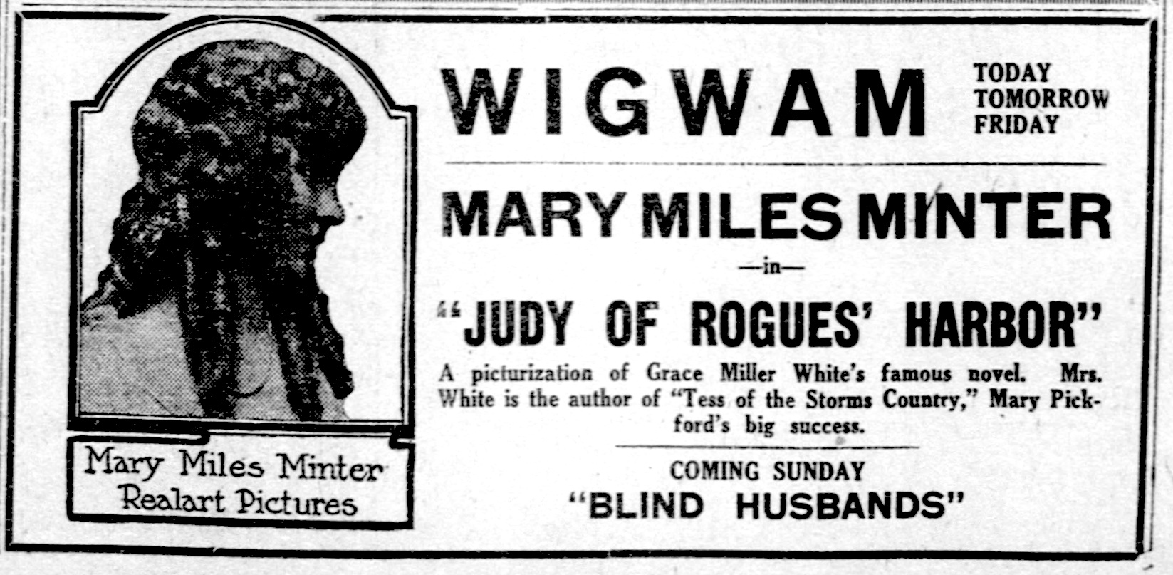 Judy of Rogue's Harbor is a 1920 silent film drama directed by William Desmond Taylor and starring Mary Miles Minter. This is an advertisement that appeared in the El Paso Herald.